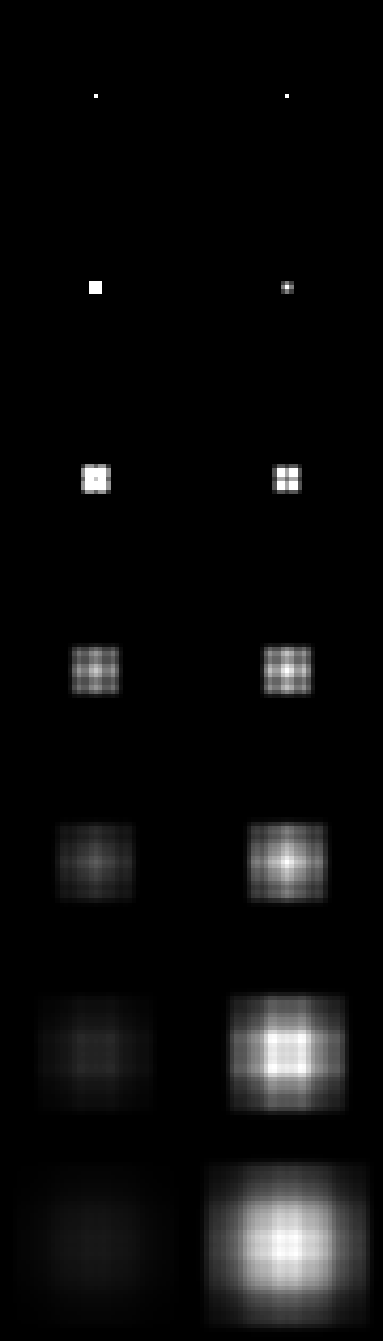 Visual representation of the kernel of the Kawase's Bloom Filter, or equivalently the images obtained by applying the filter on 1-pixel-sized luminous dot. From up to bottom: initial state (a luminous dot), the kernel of 1-path filter, that of 2-path filter, ..., that of 6-path filter. The figure on left is the raw image and on right is the luminosity-normalized image so that the pixels have value 255 at the maximum.